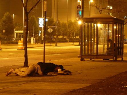 A homeless person sleeping on a street in Cleveland, Ohio, U.S.A.